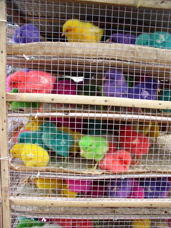 Colored chicks for sale in Bali